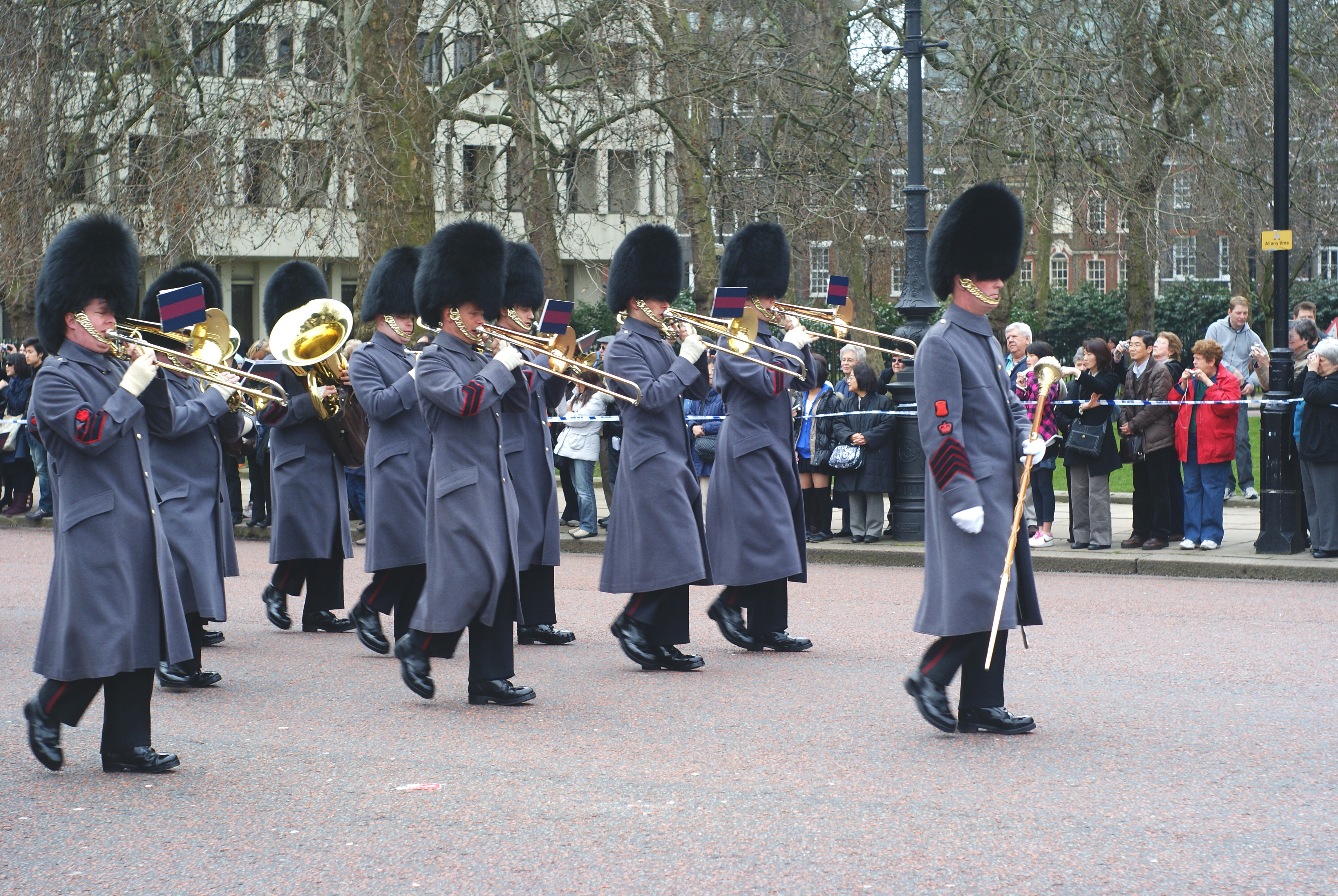 Changing the Guard at Buckingham Palace The band of the Grenadier Guards march from their barracks (just out of picture, to the left), towards Buckingham Palace. The regiment can be identified by the single buttons on their uniforms.